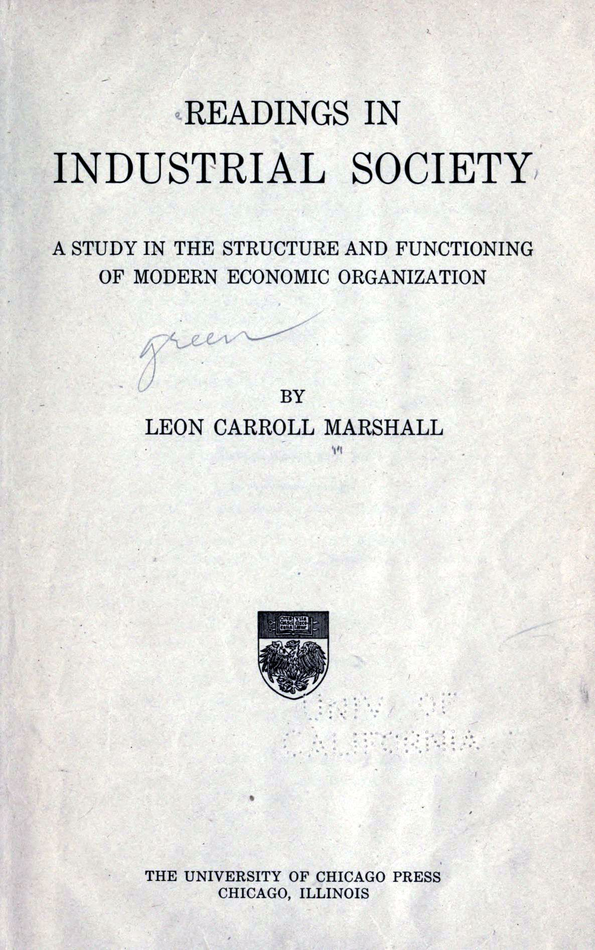 Readings in industrial society, 1920